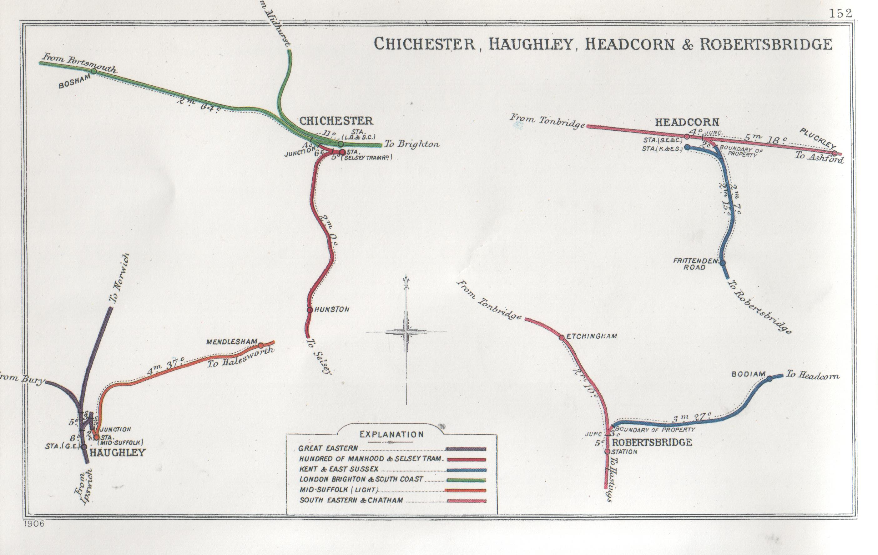 Railway Junctions in Chichester, Haughley, Headcorn & Robertsbridge pre grouping